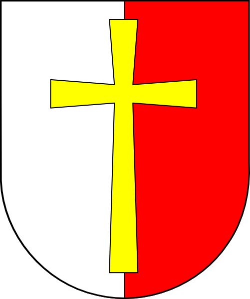 Coat of arms of Henryk J. Nowacki, Apostolic Nuncio to Nicaragua (2007 -), Apostolic Nuncio to Slovakia (2001 - 2007)